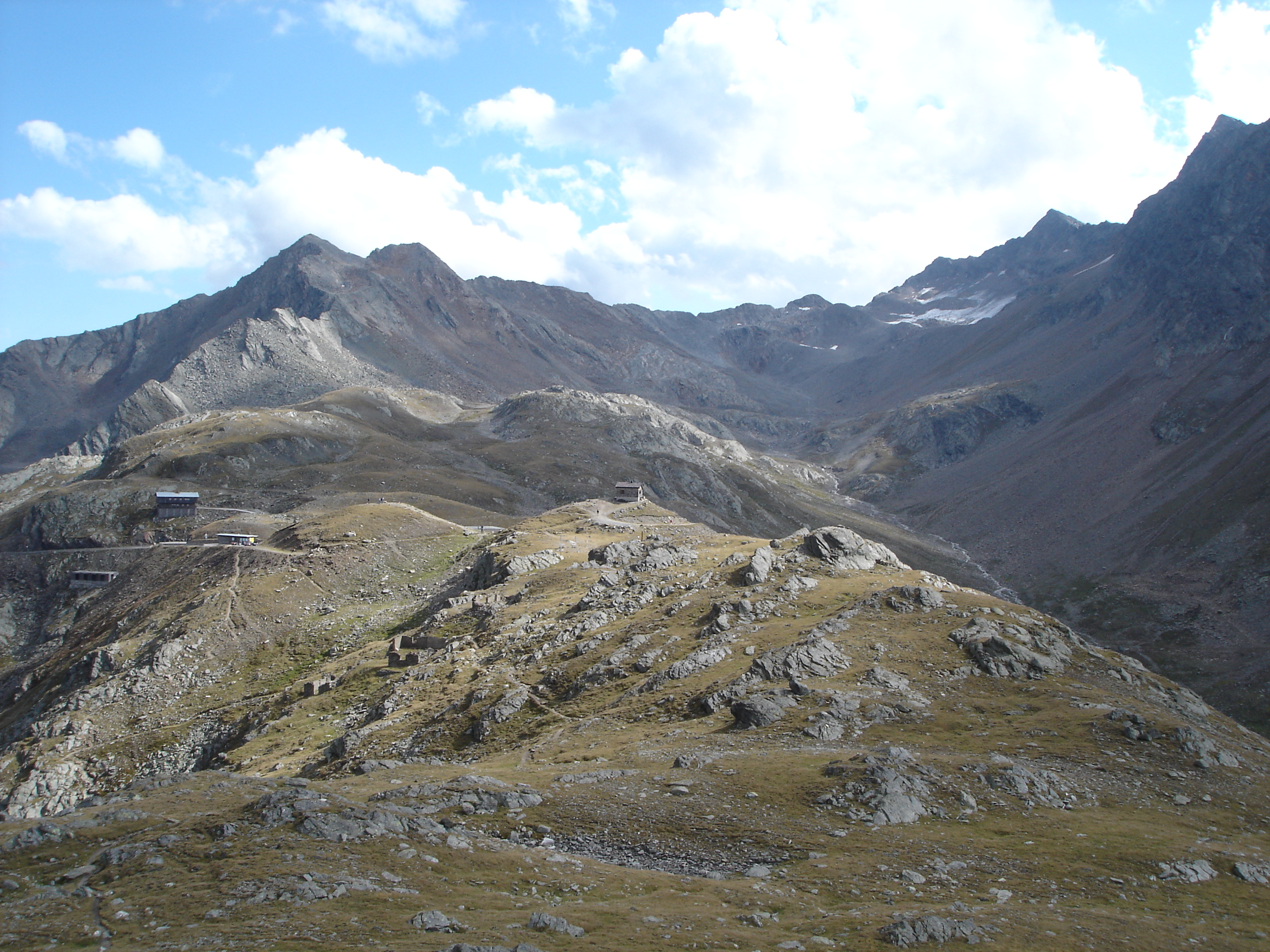 Timmelsjoch / Passo del Rombo seen from north, i.e. Italy to the left, Austria to the right, Ötztal mountains in the background: from left to right: Banker Joch, Äußere Schwenzer Spitze, Hinterer Wurmkogel, Schermer Spitze